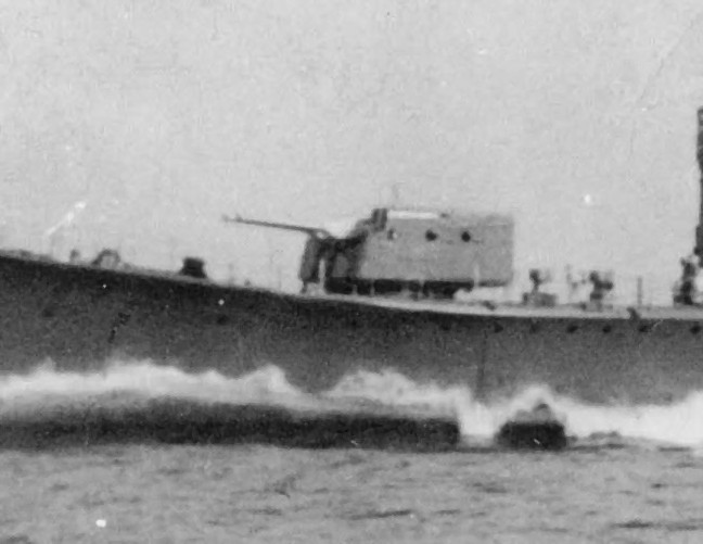 Type C turret - 127 mm Type 3 gun-3 of the Imperial Japanese Navy destroyer Asashio.